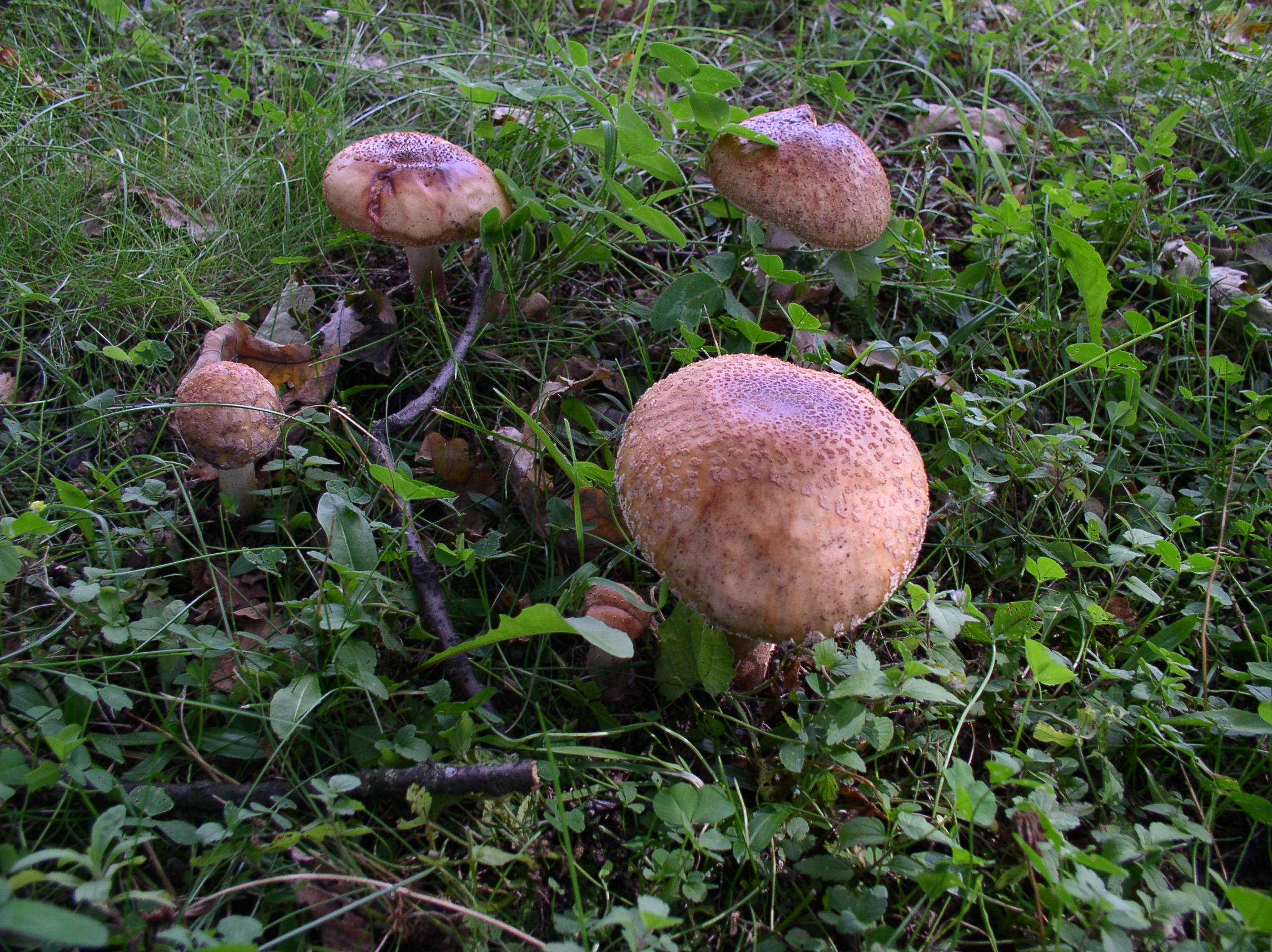 Blusher